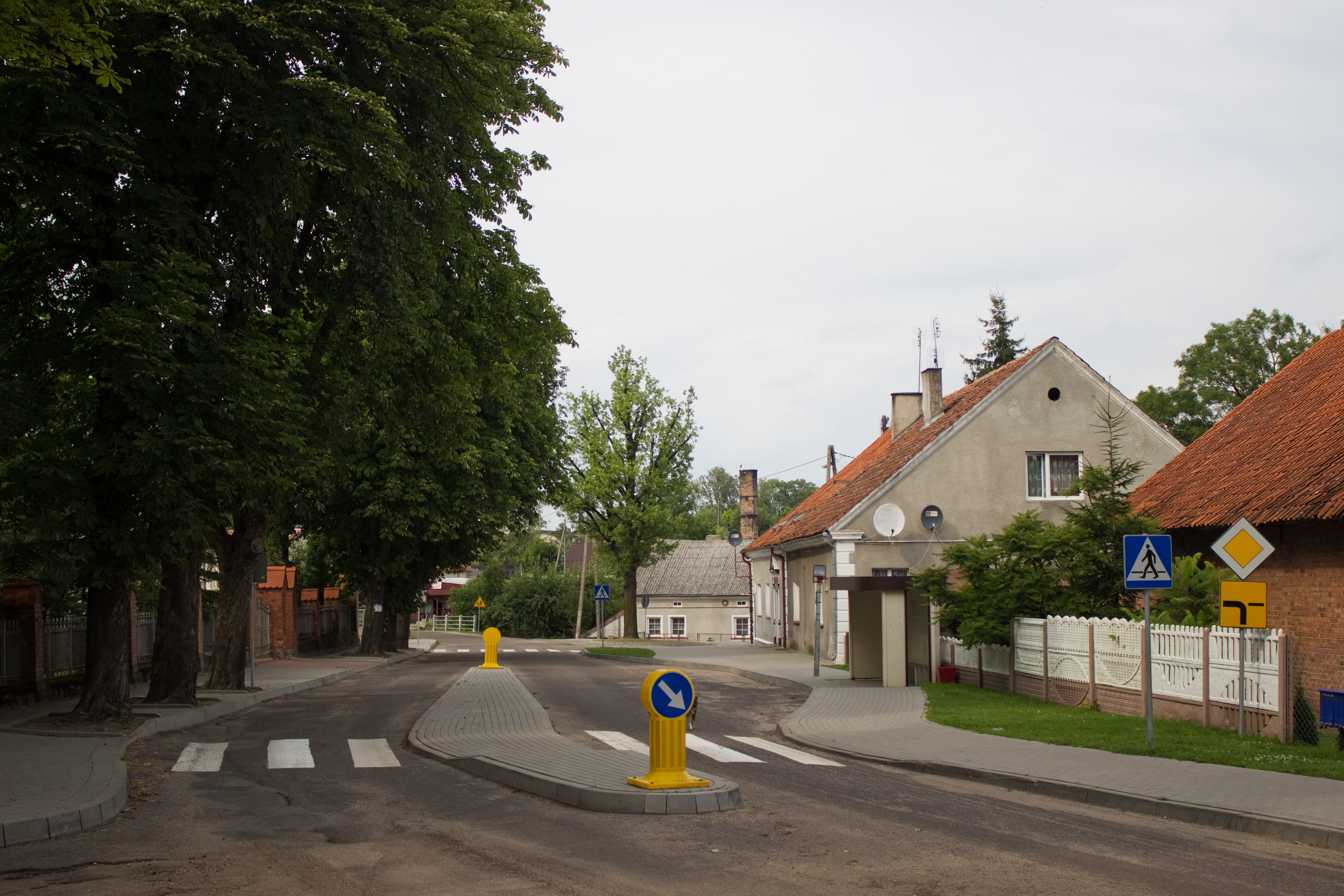 Street, Kolno, gmina Kolno, powiat olsztyński, Warmian-Masurian Voivodeship